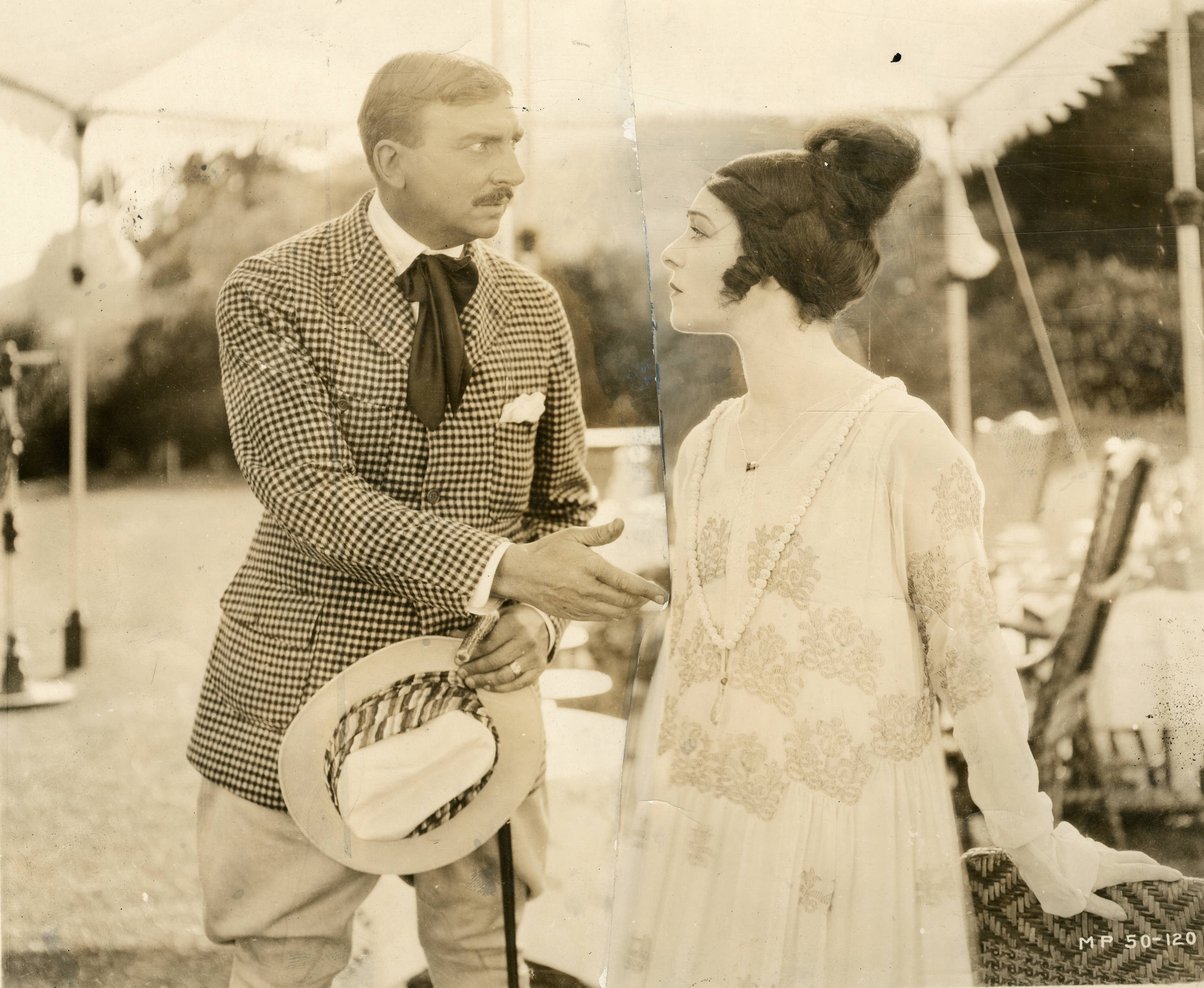 A scene from the American film Stronger Than Death (1920), with Alla Nazimova at the Clemmer Theater, Seattle. Date stamped Feb. 11, 1920. Subjects: motion pictures, actresses